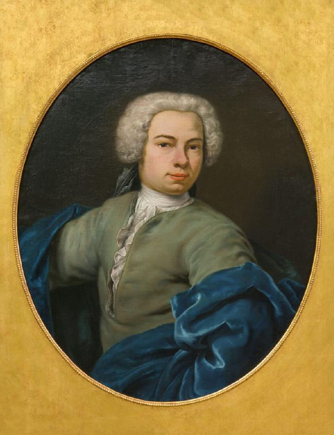 Portrait of the Dutch cartographer Theodorus Beckeringh (1712-1790), made in 1735 by Jan Abel Wassenbergh.